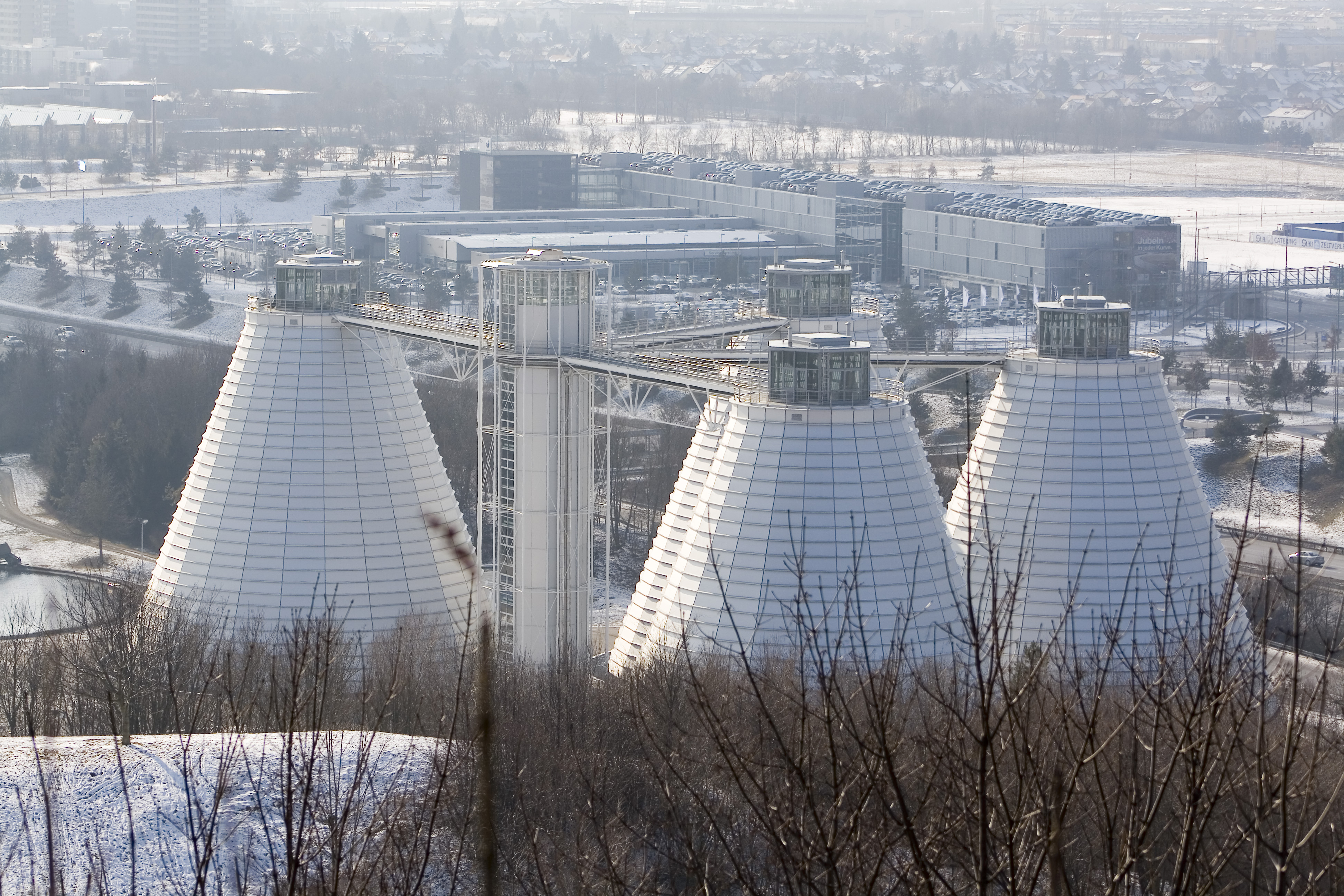 Münchner Stadtentwässerung Fröttmaning, Munich, Germany